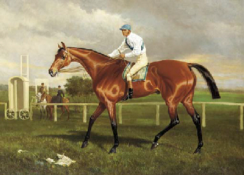 Painting of the English racehorse Robert the Devil by Alfred F. De Prades circa 1881